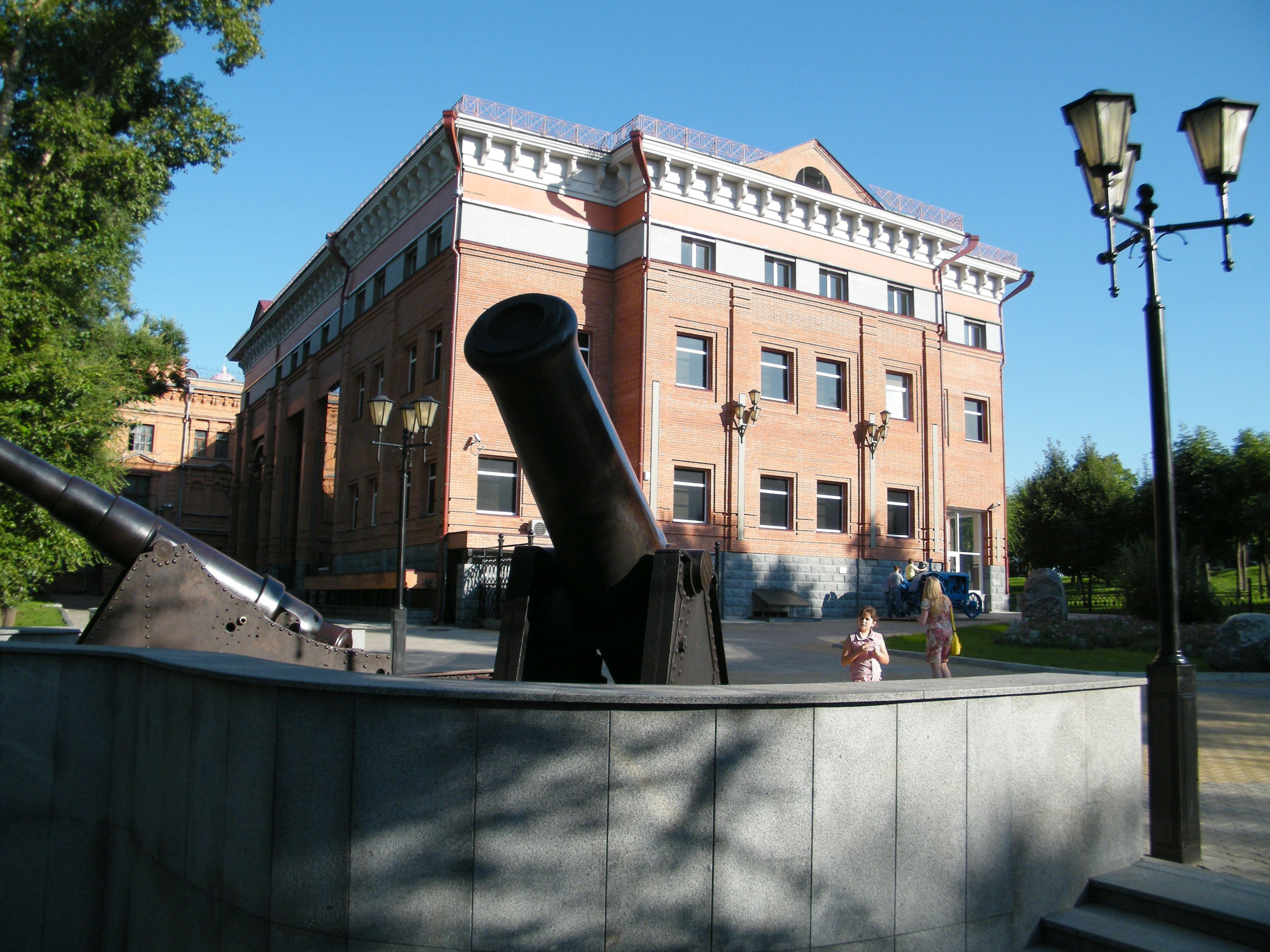 Khabarovsk